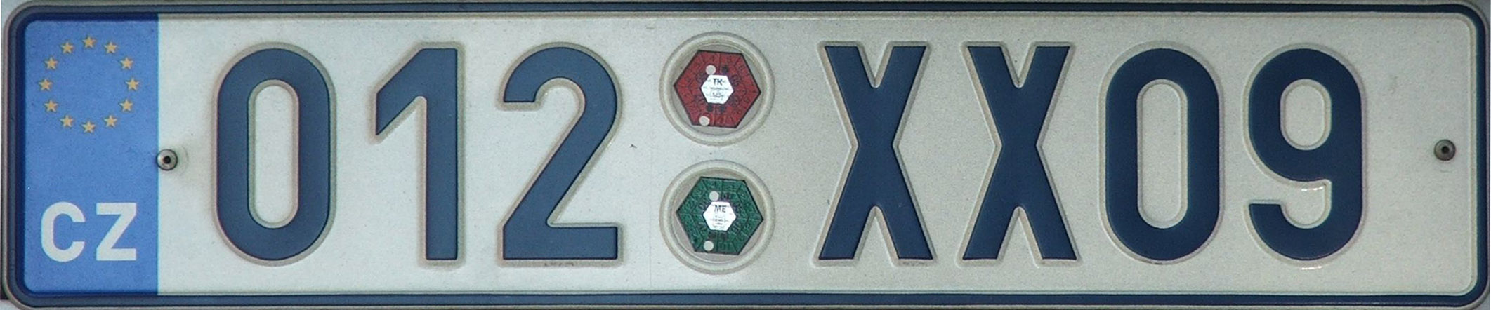 Czech registration plate issued for cars used by foreign diplomatic missions in Czechia - XX -(non diplomatic staff) CD- diplomats